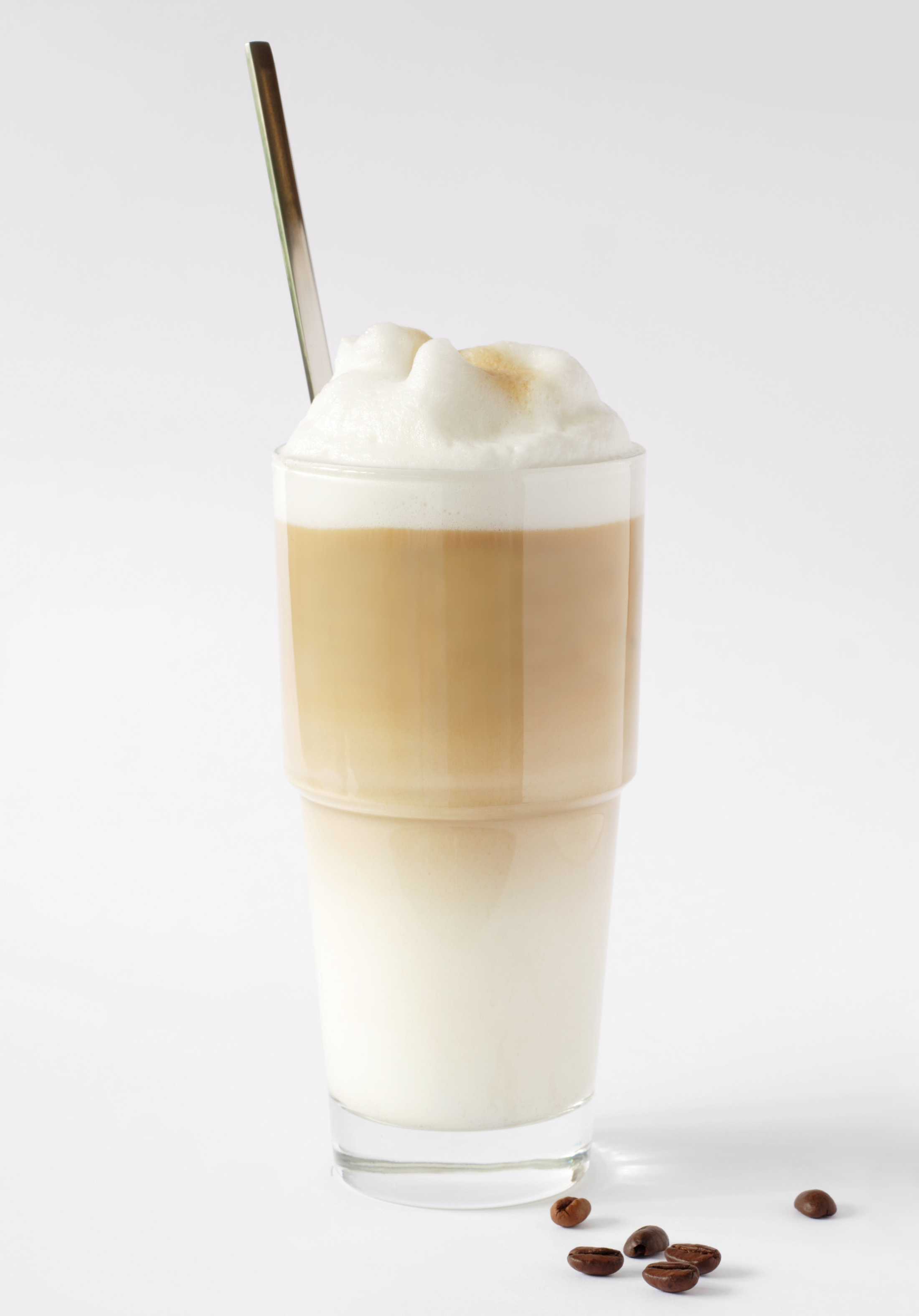 This photograph shows a glass of latte macchiato, which is a hot beverage made from steamed milk and espresso.